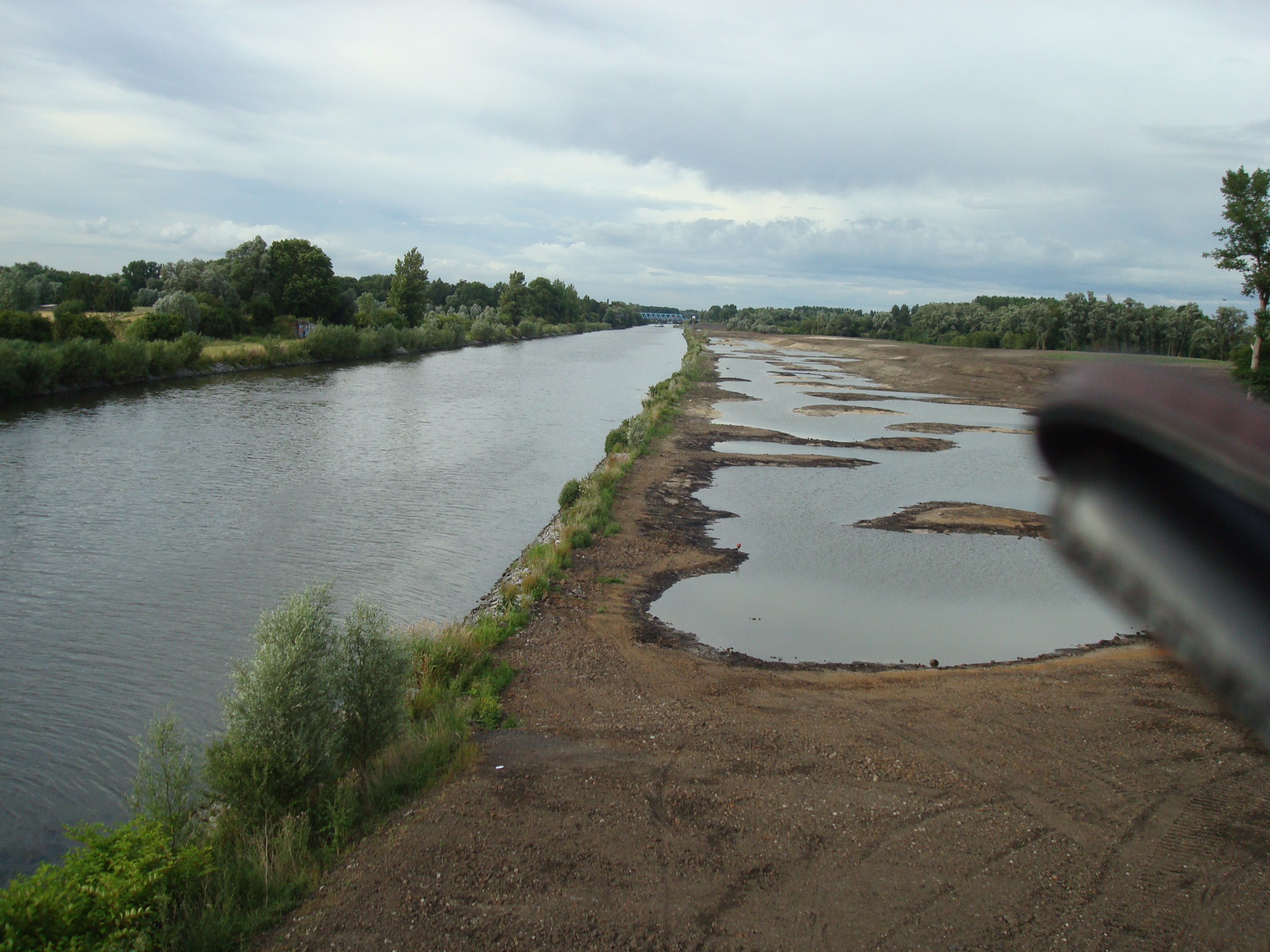 Banks with subnatural lagoons (Constructed wetland) were created (2010) by VNF (Waterways of France), as a countervailable to set wide gauge of the Scheldt in the north of France, on the edge of the river. The lagoon is divided into meanders in order to extend the ecotone soil-water and purifying water of the Scheldt. It is powered by the Scheldt itself passively or more "active" during the passage of boats (which produces a wave with pressure and depression).